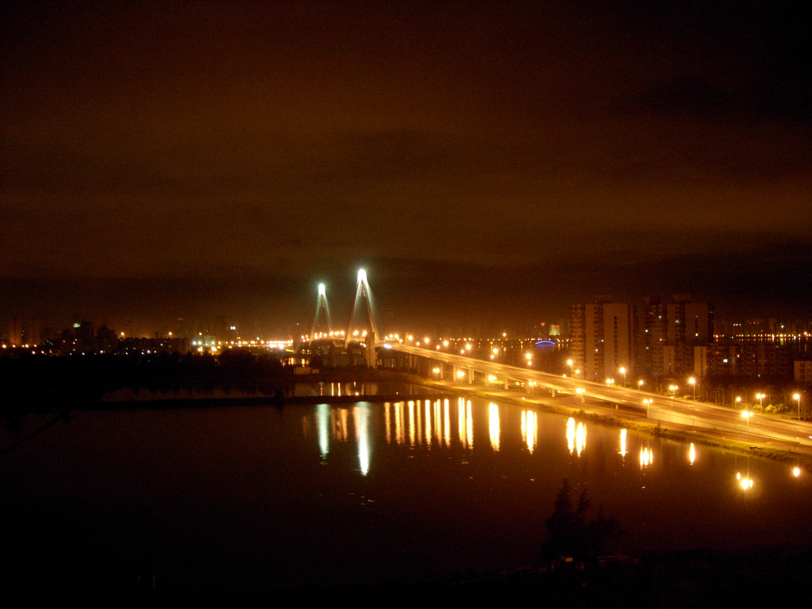 Haikou Century Bridge